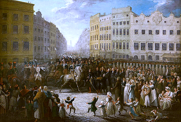 Enter of Prince Józef Poniatowski to Kraków in 1809